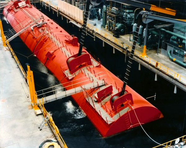 S5G Propulsion Plant with water in basin at the Naval Reactors Facility.